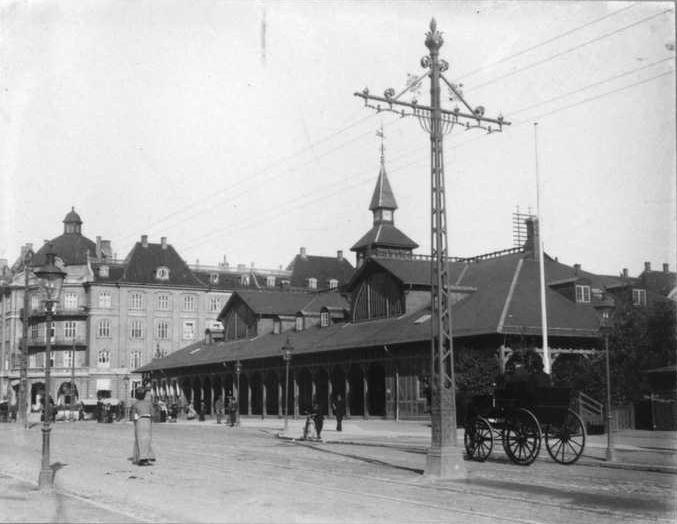 Østerport Station seen from the future Oslo Plads